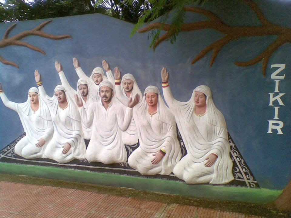 Zikir